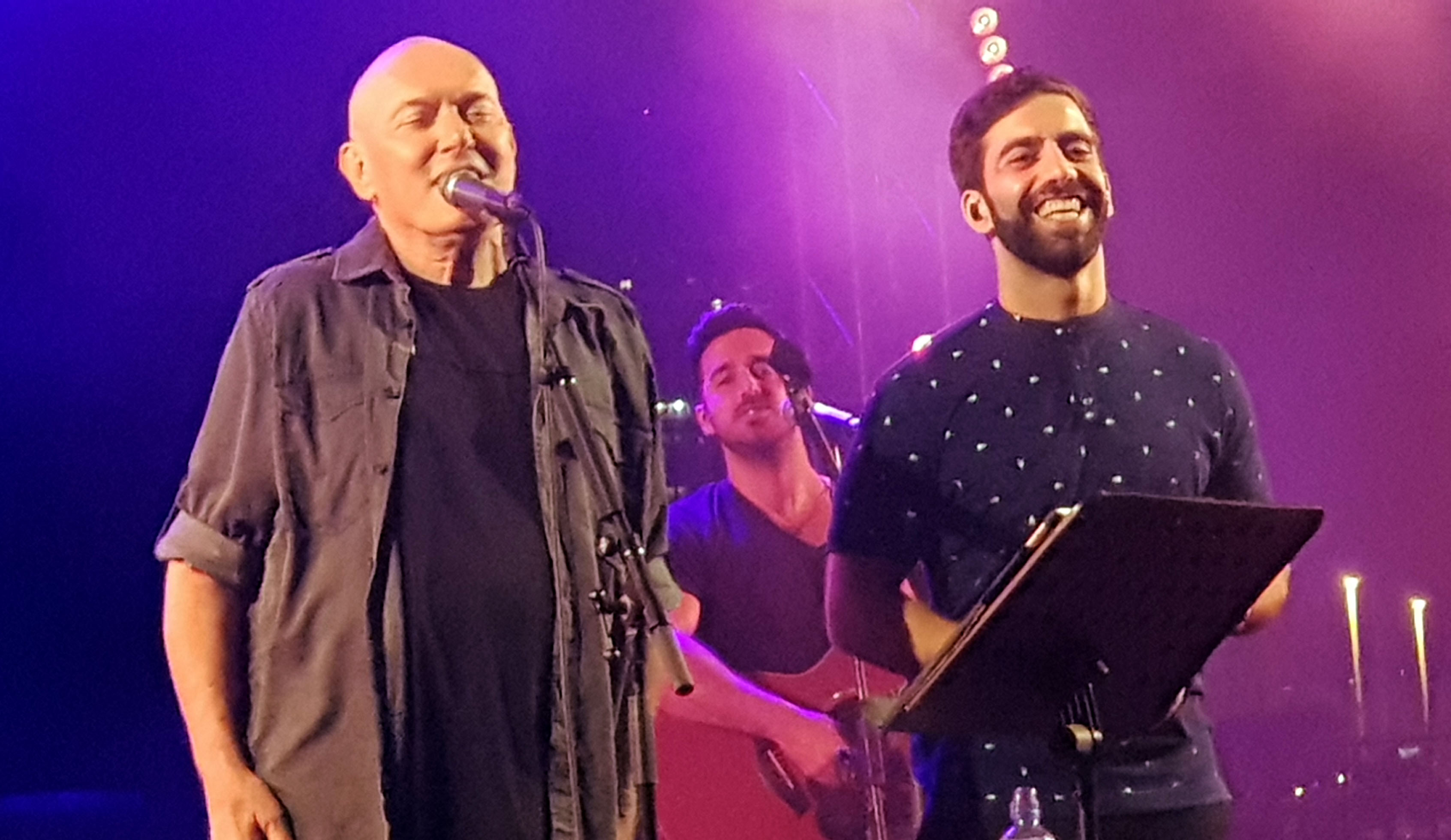 Israeli singers Shlomi Shabat and Eliad Nachum, September 2018